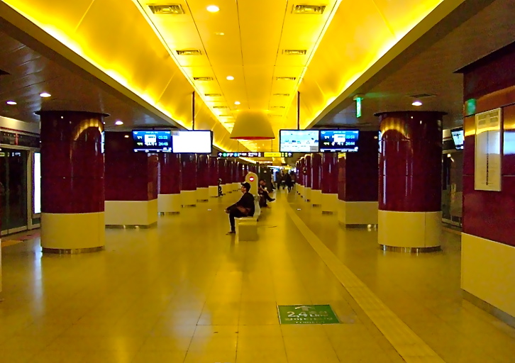 A shot of the Dongdaemun History & Culture Park Station on Seoul Subway Line 5.